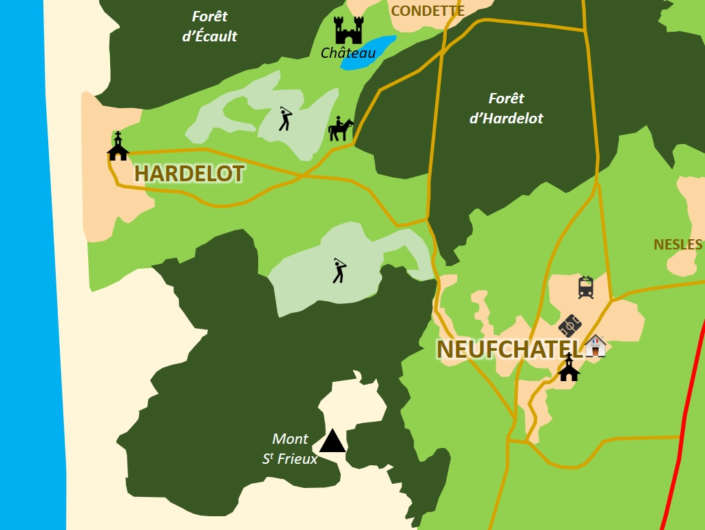 Neufchâtel-Hardelot map, northern France